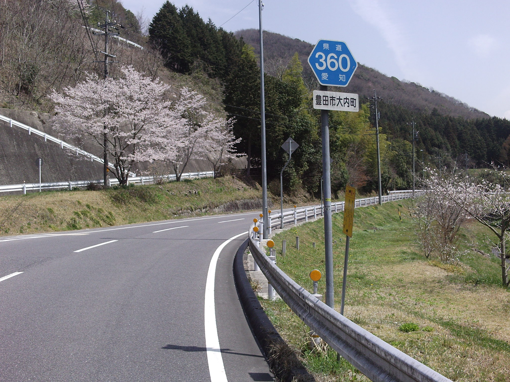 Aichi prefectural road No.360 in Ouchicho, Toyota, Aichi.